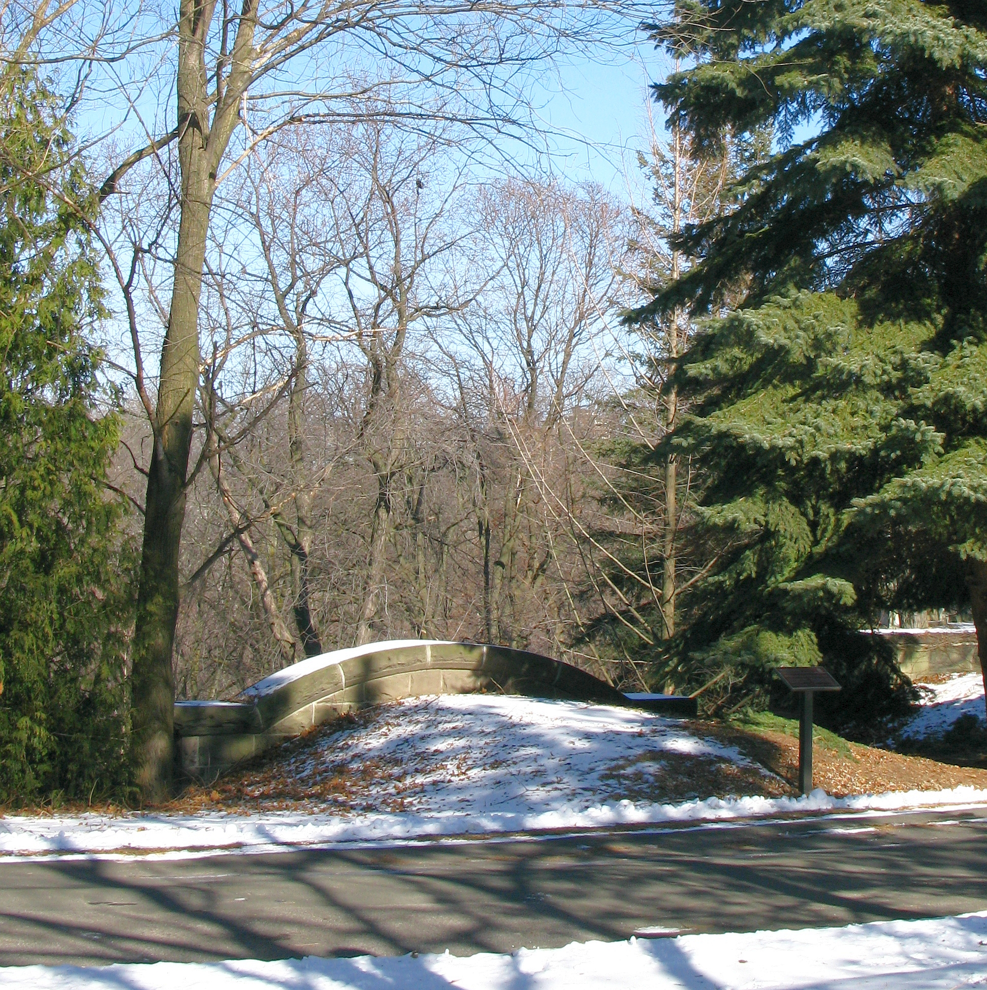 Grave of William Pearce Howland at St. James Cemetery in Toronto. A plaque is located in front of the grave.